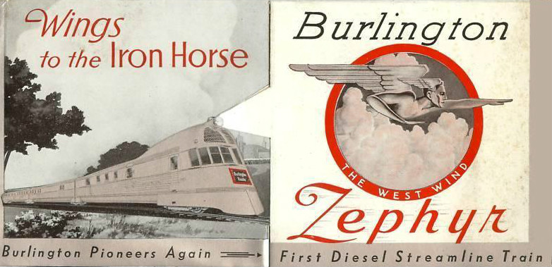 Larger photo of the Pioneer Zephyr brochure front. The watermark has been removed and some clean-up done.